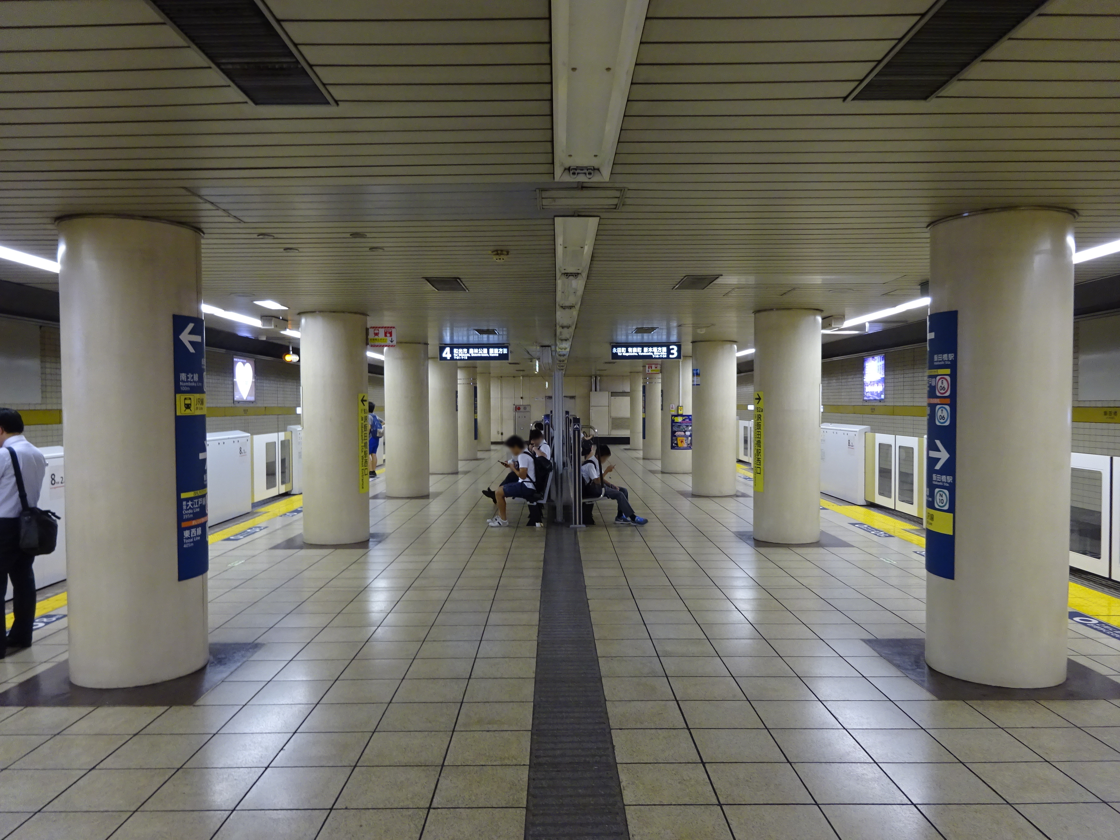 Platforms of Iidabashi Station(Tokyo Metro Yurakucho Line)